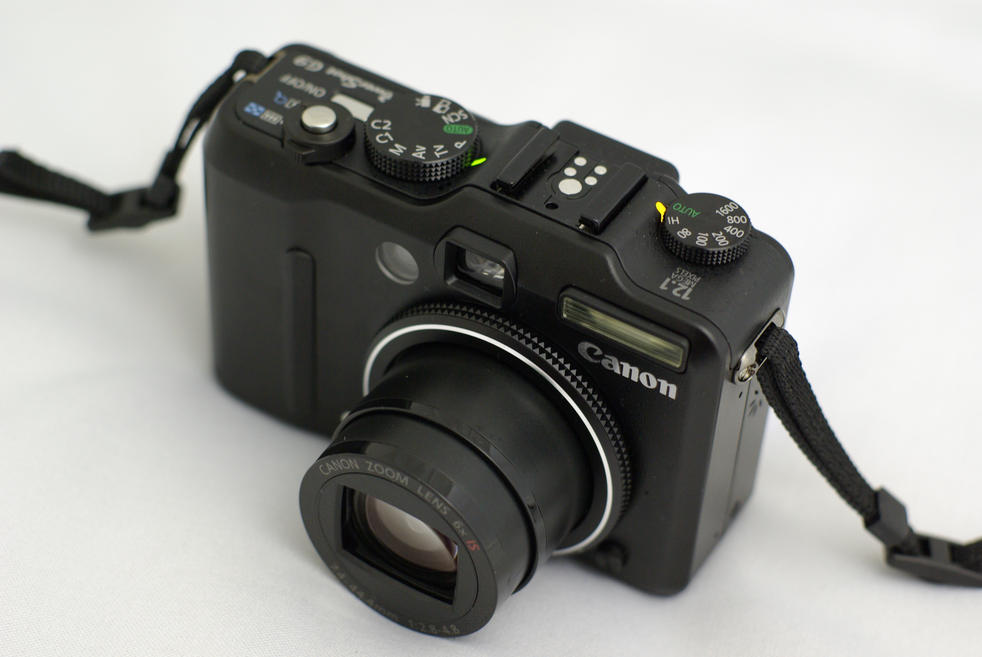 Canon PowerShot G9 Body